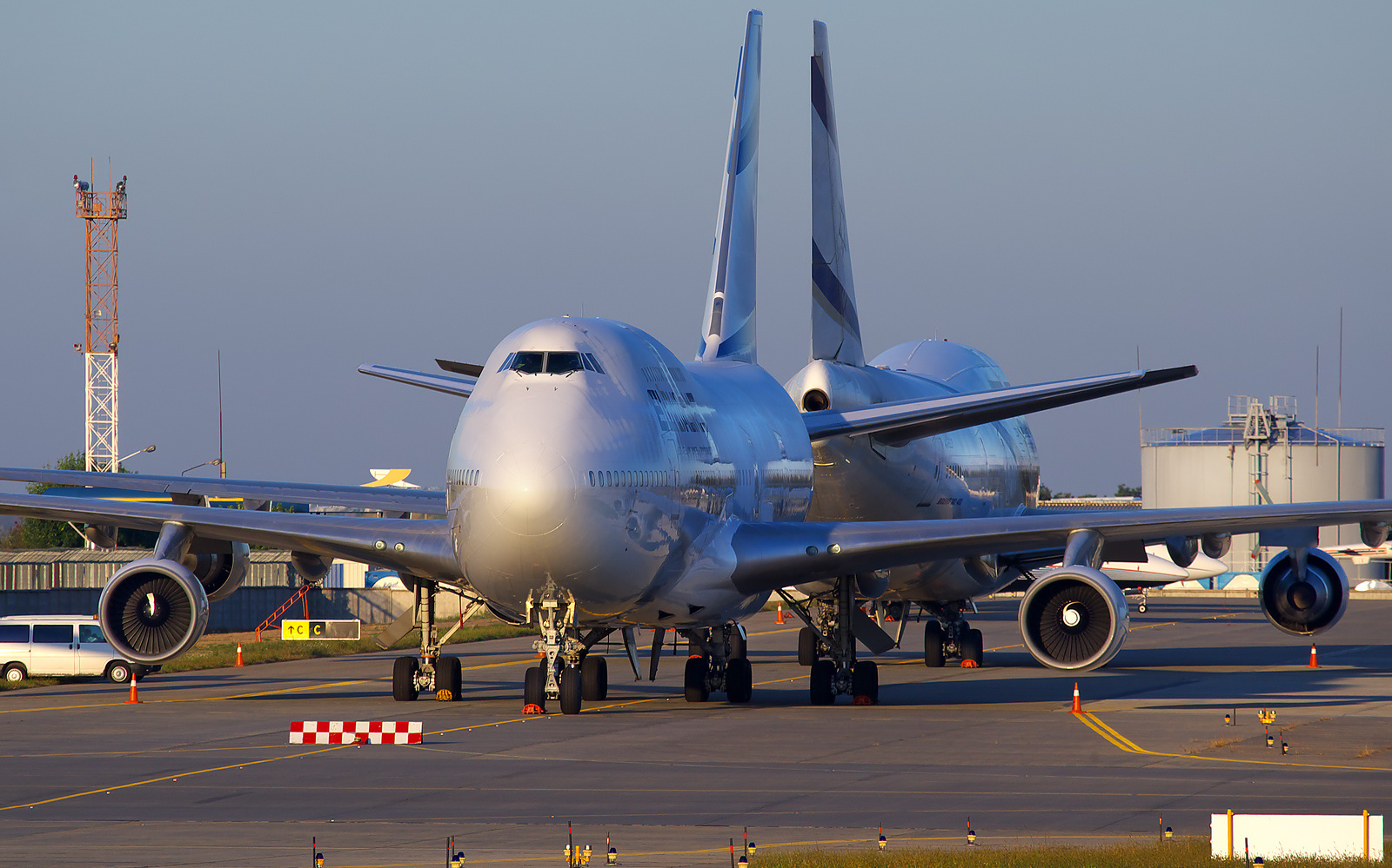 Two El Al 747 aircraft on stand at Kyiv's Boryspil Intl Airport